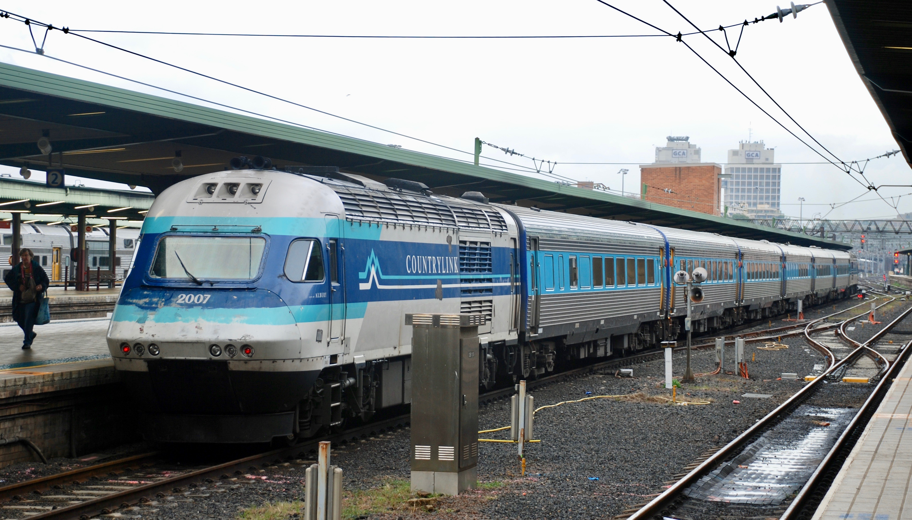 CountryLink XPT at Central station, Sydney. The locomotives are in the first CountryLink livery and the carriages are in the second CountryLink livery.